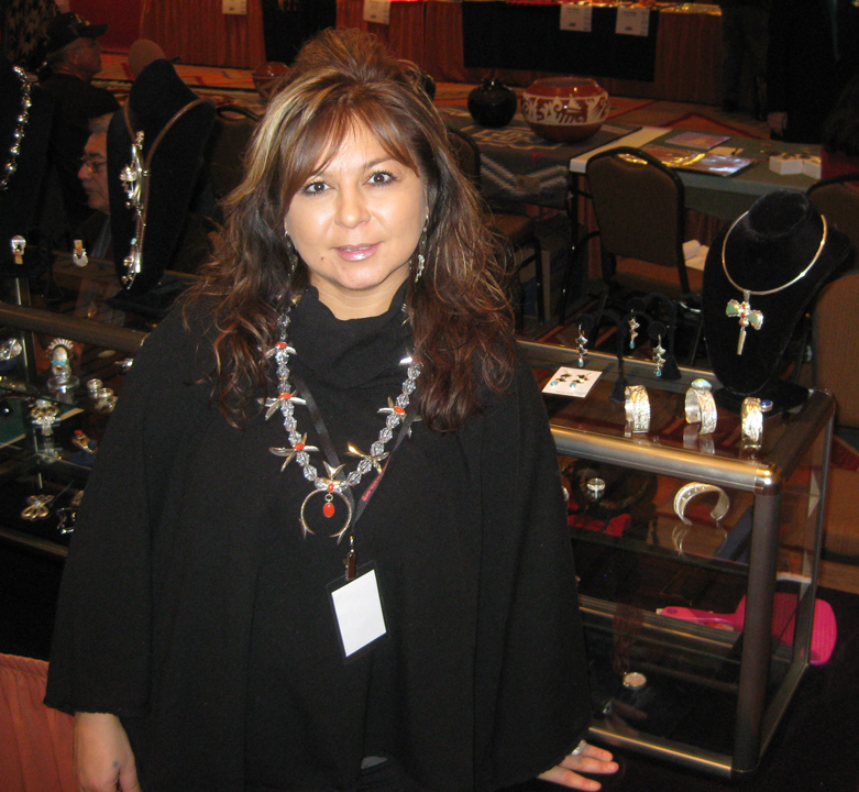 Wanesia Spry Misquadace (Fond du Lac Band, Minnesota Chippewa Tribe) jeweler and birch bark biter